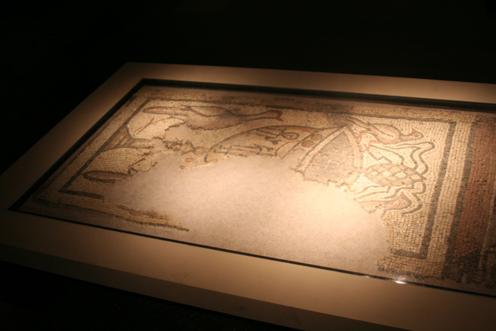 Simon Janashia Museum of Georgia